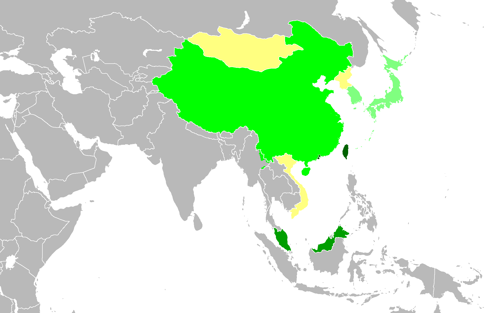 Countries (modern boundaries drawn) where Chinese characters were/are used in its official/dominant language or at least one of its official/dominant languages. !Dark Green - Traditional Chinese characters used exclusively or almost exclusively (Taiwan, Hong Kong, and Macau). !Medium Green - Simplified Chinese characters used formally but traditional characters continue to be used widely (Singapore and Malaysia). !Green - Simplified Chinese characters used exclusively or almost exclusively (Mainland China) !Light Green- Chinese characters used in conjunction with other systems of writing in the same language (Japan). !Light Yellow - Chinese characters were once used in the official language but is not used any more (South Korea, North Korea, Mongolia and Viet Nam).